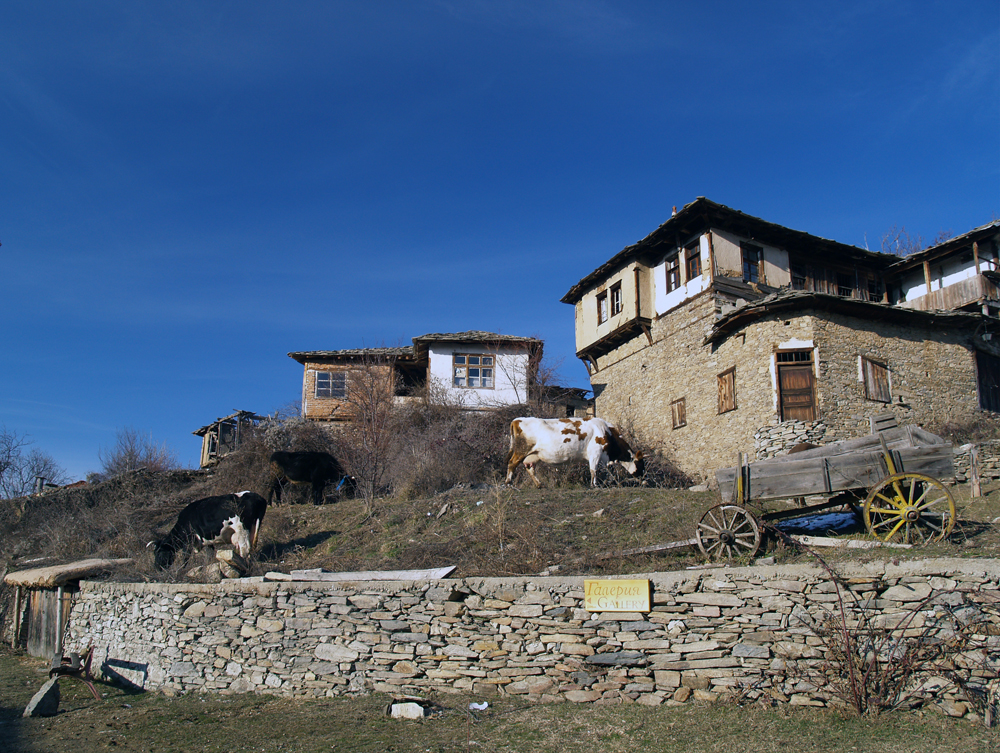 Old Houses in Leshten